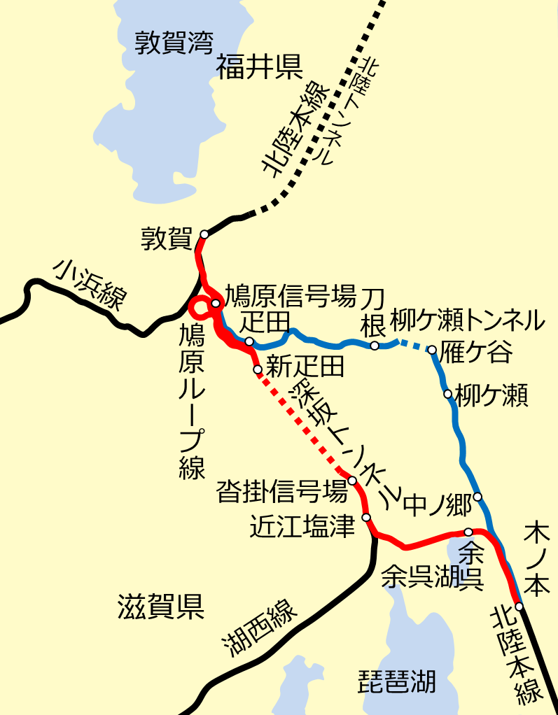 Old Hokuriku mainline route using Yanagase tunnel in blue solid line and new Hokuriku mainline route using Fukasaka tunnel in red solid line. Some routes on this map do not exist concurrently. For example, Kosei line was opened after Yanagase route was discontinued.